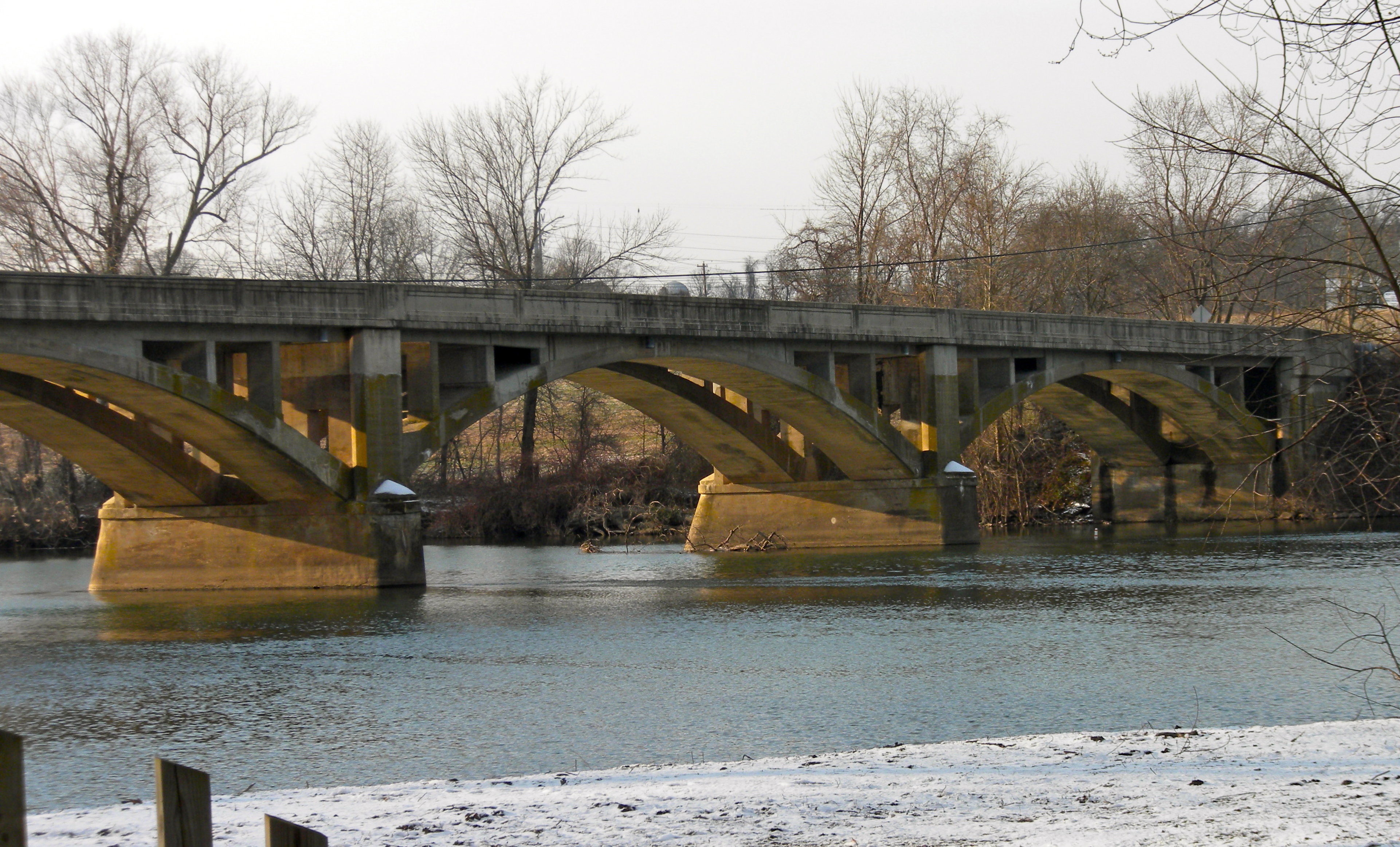 Black Rock Bridge crossing the Schuylkill River, between Chester County, PA and Montgomery County, PA, near Phoenixville, PA about 6 miles from Valley Forge. On the NRHP. I donate this photo to the public domain.